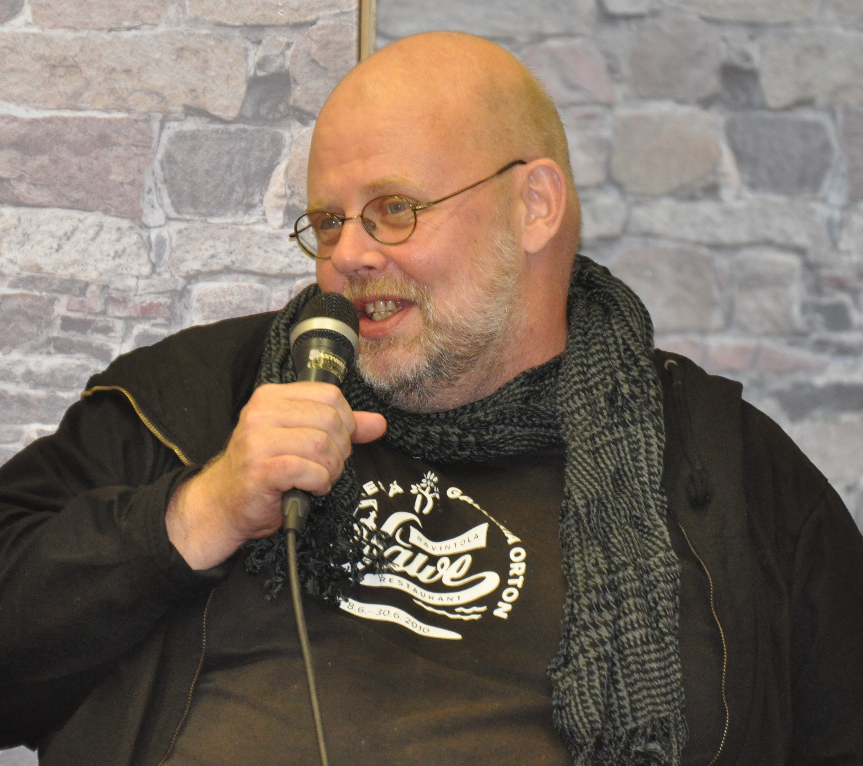 Finnish art critic Otso Kantokorpi at the Turku Book Fair 2010.